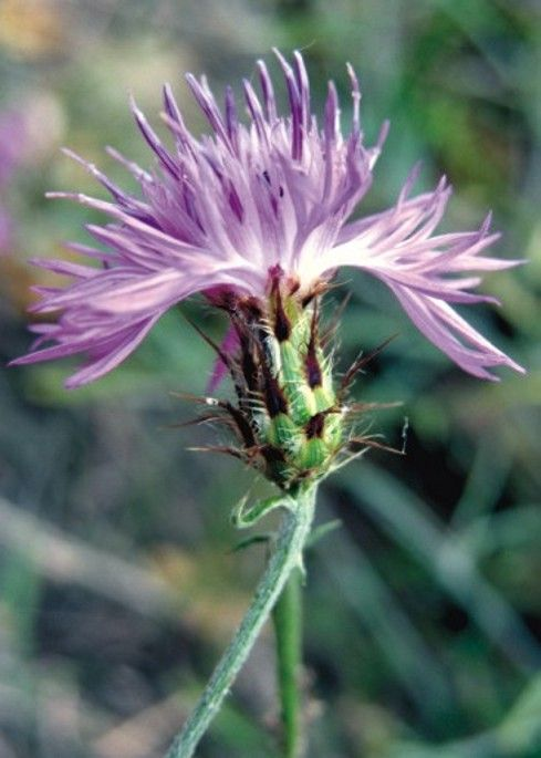 Centaurea galicicae